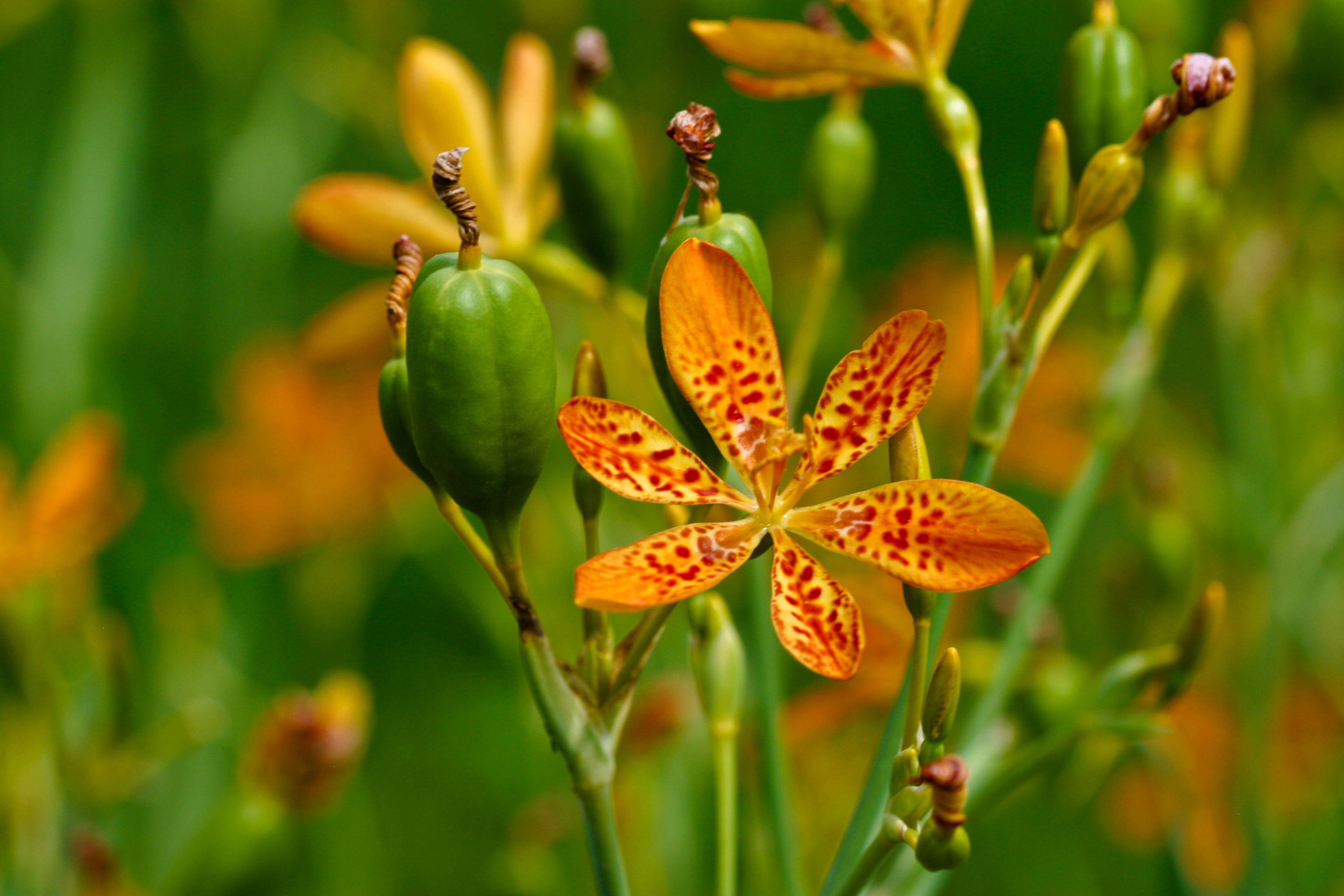 belamcanda chinensis growing in Pittsburgh, Pennsylvania